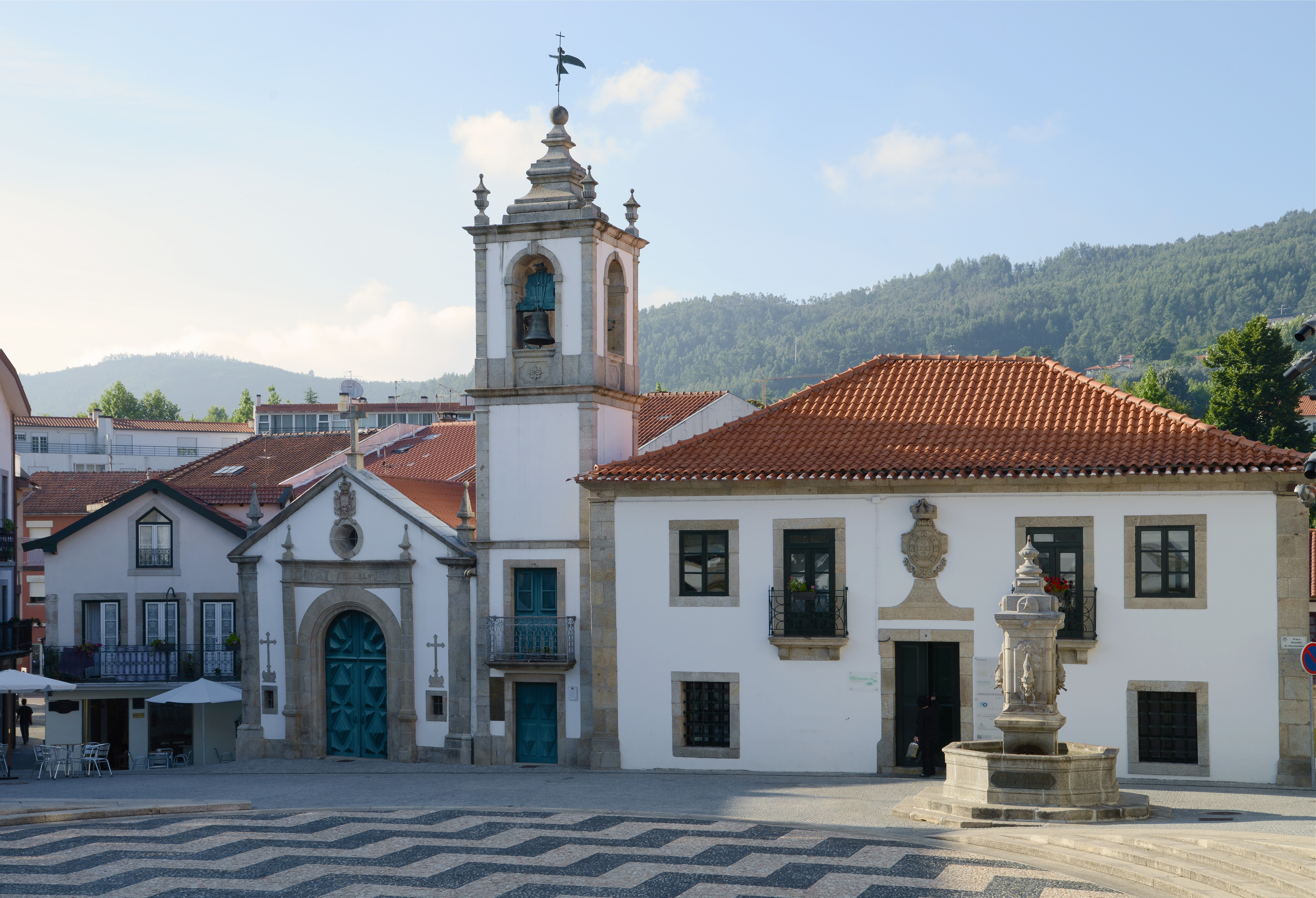 Capela da Misericórdia (Chapel of Mercy), Arouca, Portugal